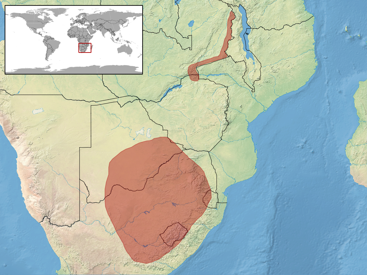 geographic distribution of Trachylepis punctatissima